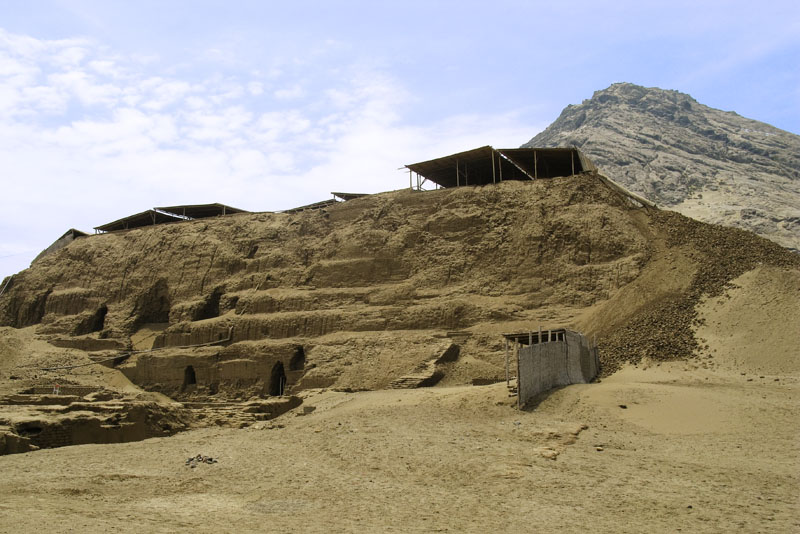 Huaca de la Luna, main center of the Moche civilisation. Background: Cerro Blanco.